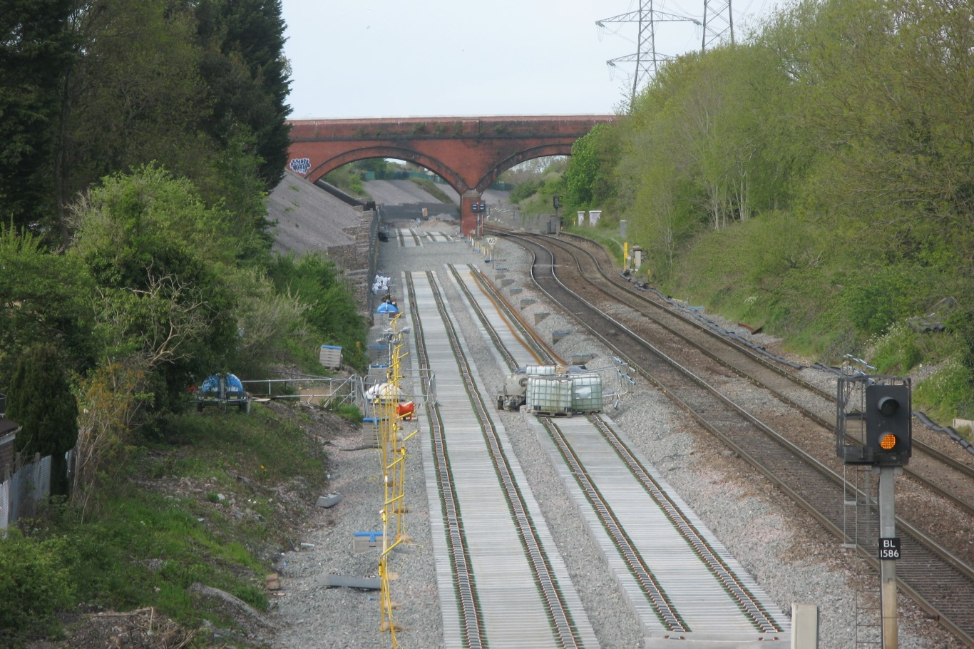 Horfield station was opened in this cutting in 1927 on the then two-track main line from Bristol to south Wales. Two additional tracks were added to the right in 1933 but the original tracks were removed in 1984. Since then the number of trains on this route has doubled and so the two tracks are being reinstated in 2018.